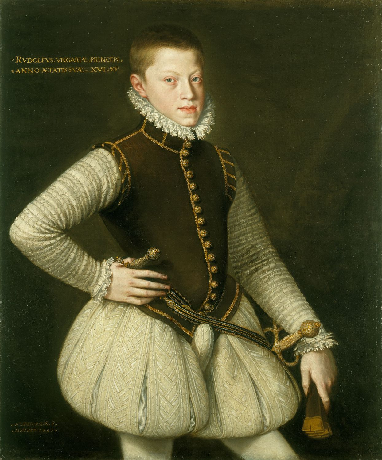 Archduke Rudolf, the later Rudolf II, Holy Roman Emperor He is wearing pumpkin hose (pluderhose) with a codpiece.